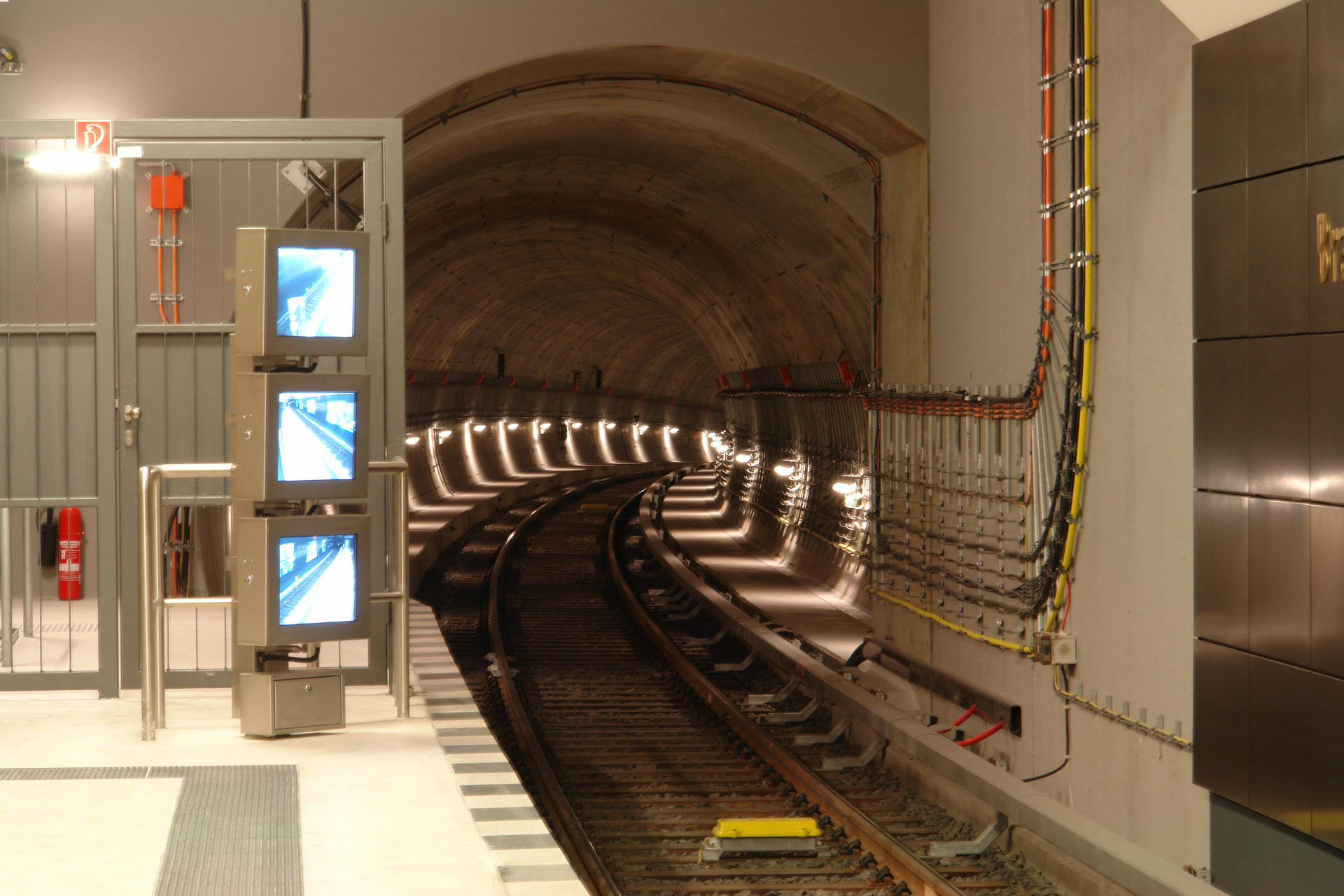 Berlin, Subway stop Brandenburger Tor.